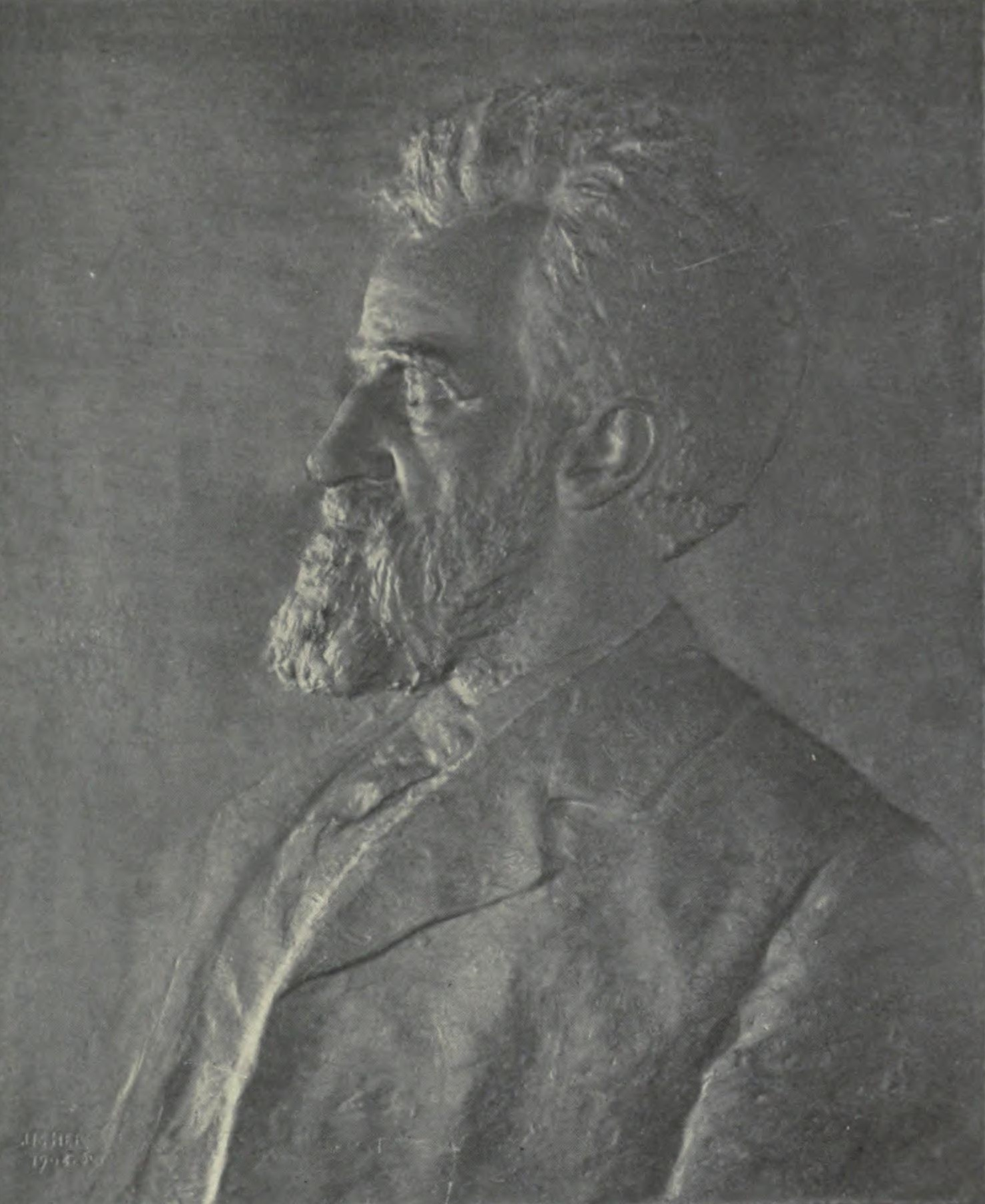 "Bas-Releif of Mr. Shaler."